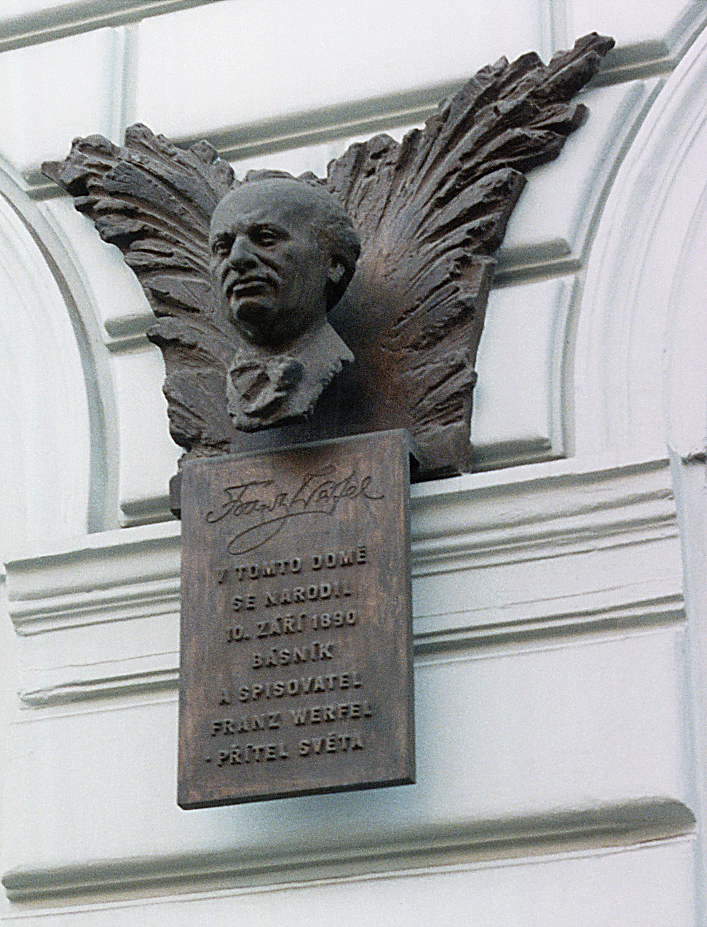 Ladislav Janouch: memorial plaquette of Franz Werfel, bronze, 1990, Prague, Czechoslovakia. in bronze: V TOMTO DOME SE NARODIL 10. ZARI 1890 BASNIK A SPISOVATEL FRANZ WERFEL -PRITEL SVETA [In this house was born on 10 September 1890 the poet and writer Franz Werfel - A friend of the world]